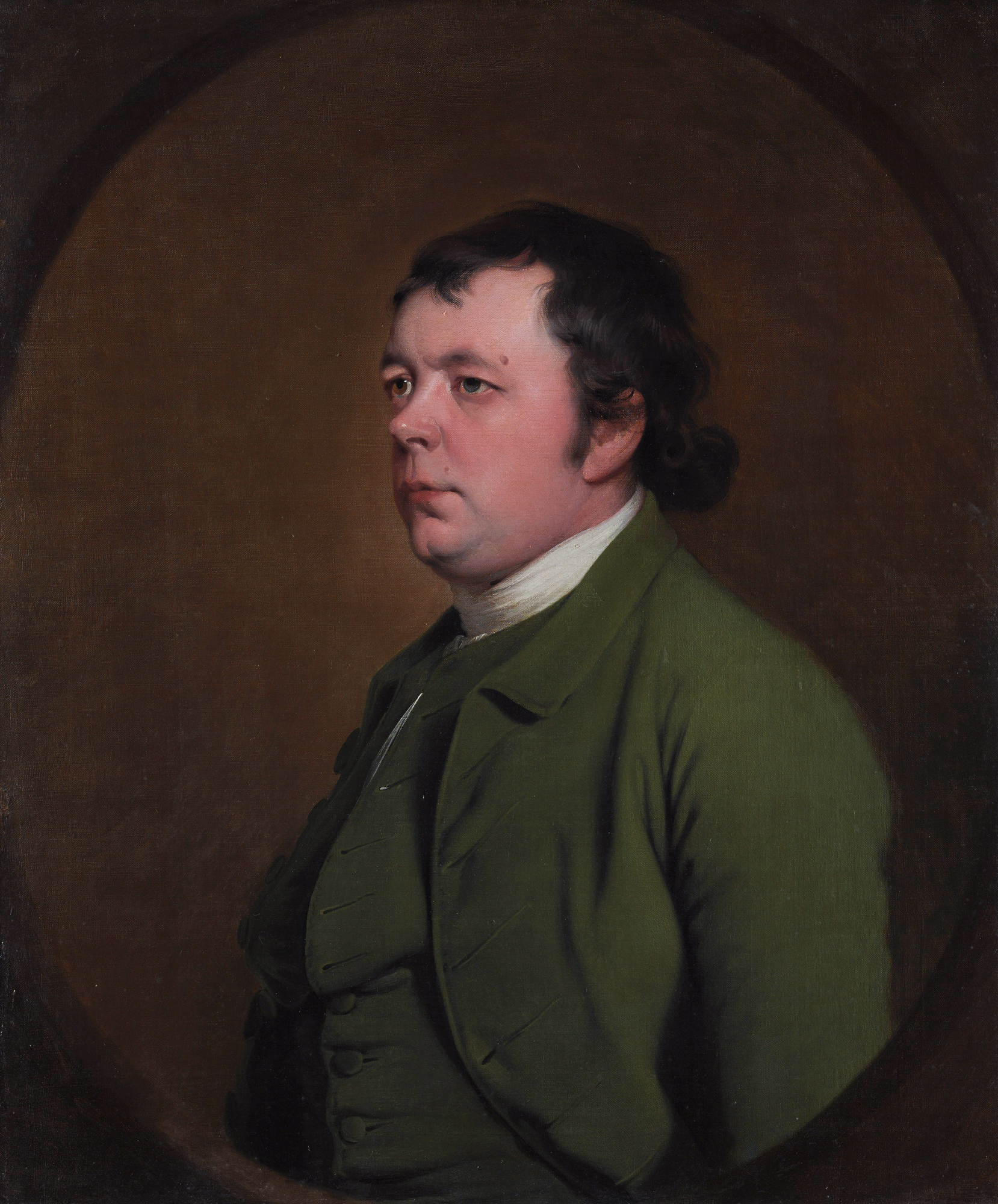 John Hope (d. 1819) He died a bachelor aged 89 in 1819, having been four times Mayor of Derby. oil on canvas 77 x 63.5 cm circa 1780